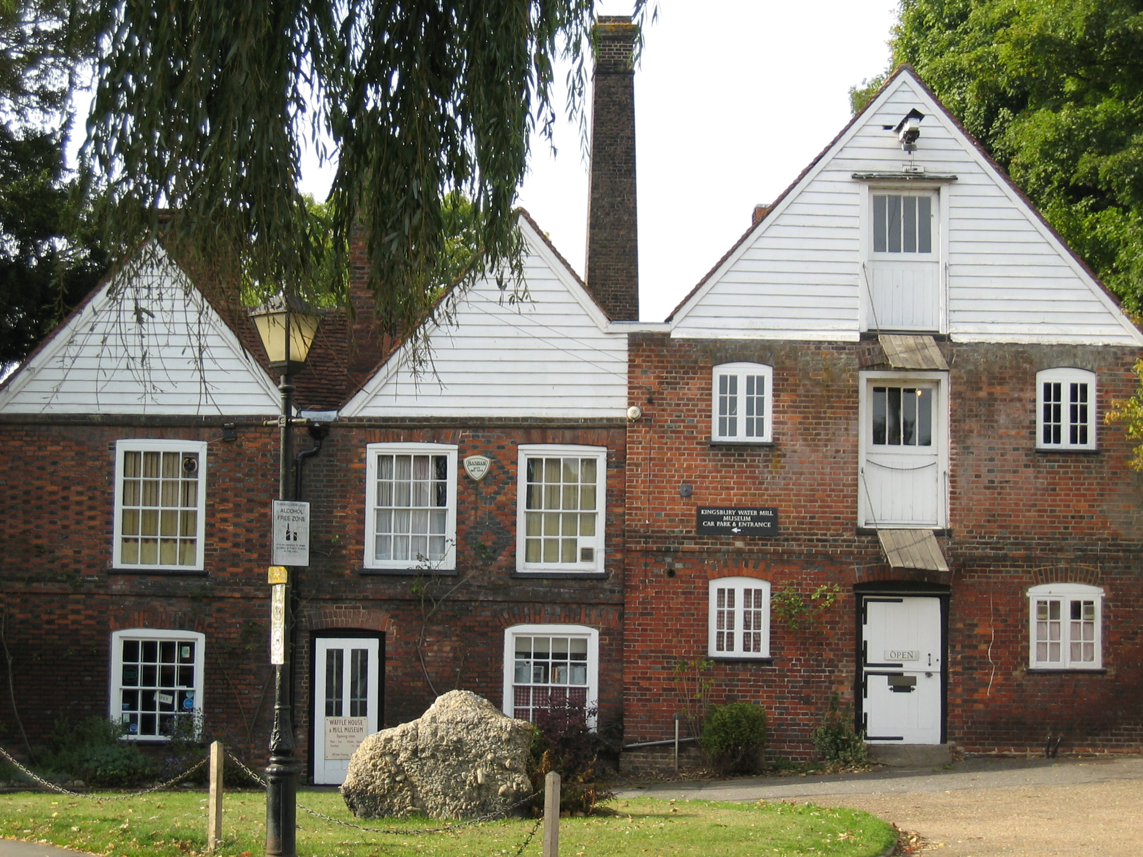 Kingsbury Water Mill Museum. St Albans, Hertfordshire, England, UK.